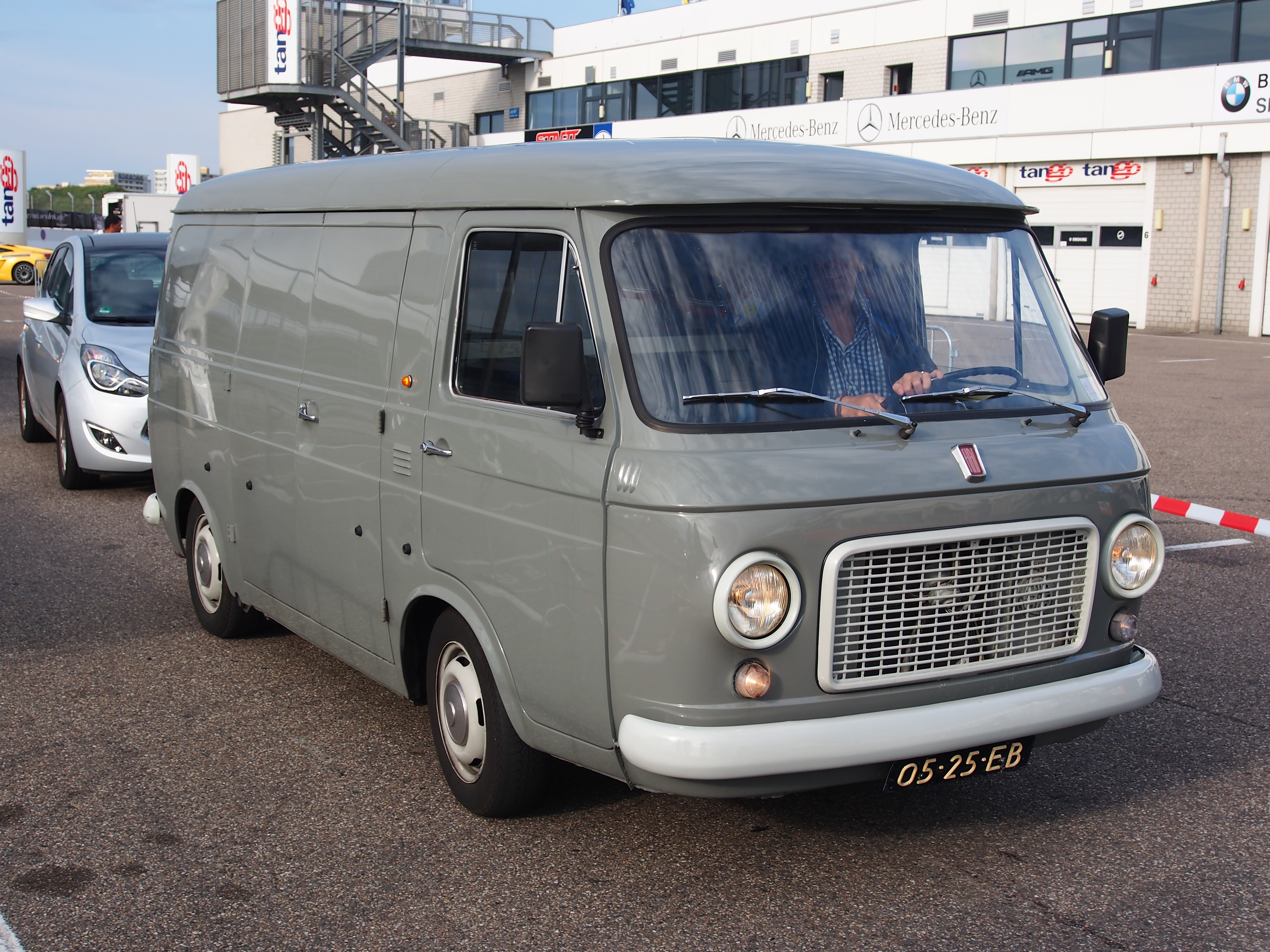 Photographed at the Nationaal Oldtimer Festival Zandvoort 2014, The Netherlands.